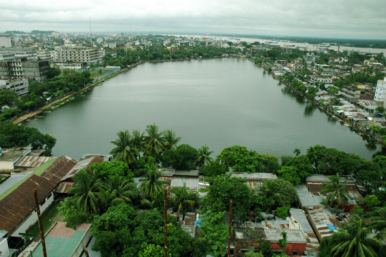 "Photos of Agrabad, Chittagong